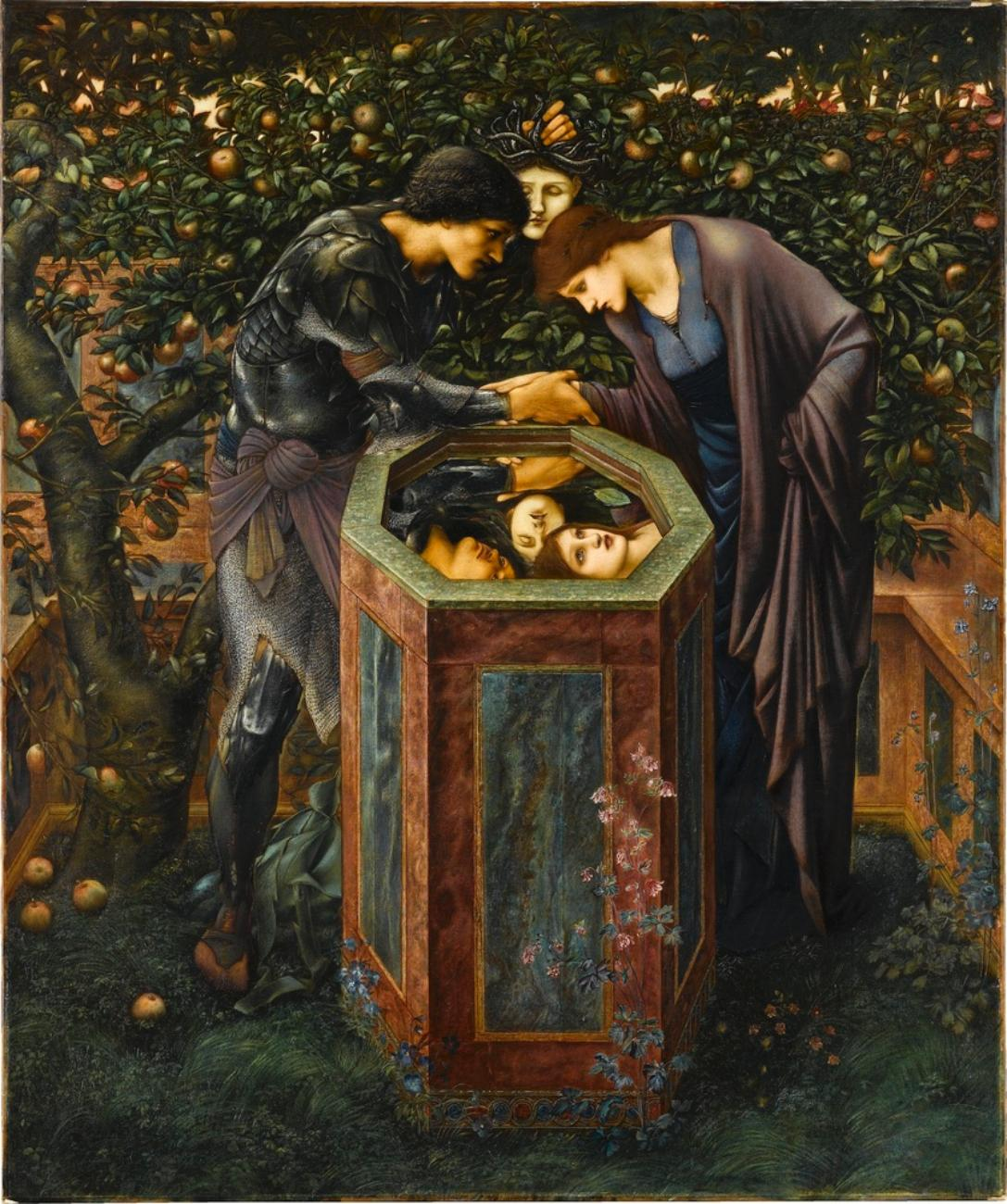 The Baleful Head (The Perseus Cycle 8) This is an oil painting of Perseus holding Medusa's head in his left hand. He is encouraging Andromeda to look at its reflection in a well so that she will not be turned to stone by Medusa's gaze. The scene was painted by Sir Edward Burne-Jones around 1887.